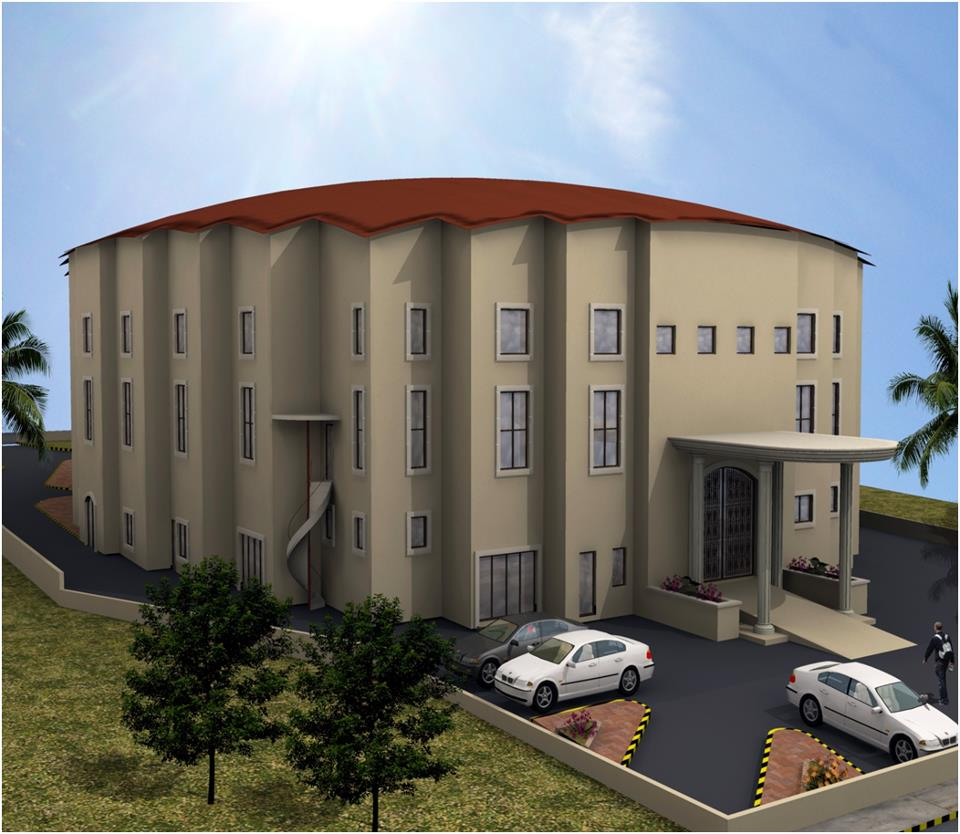 صالة سلفيت الرياضية المغلقة